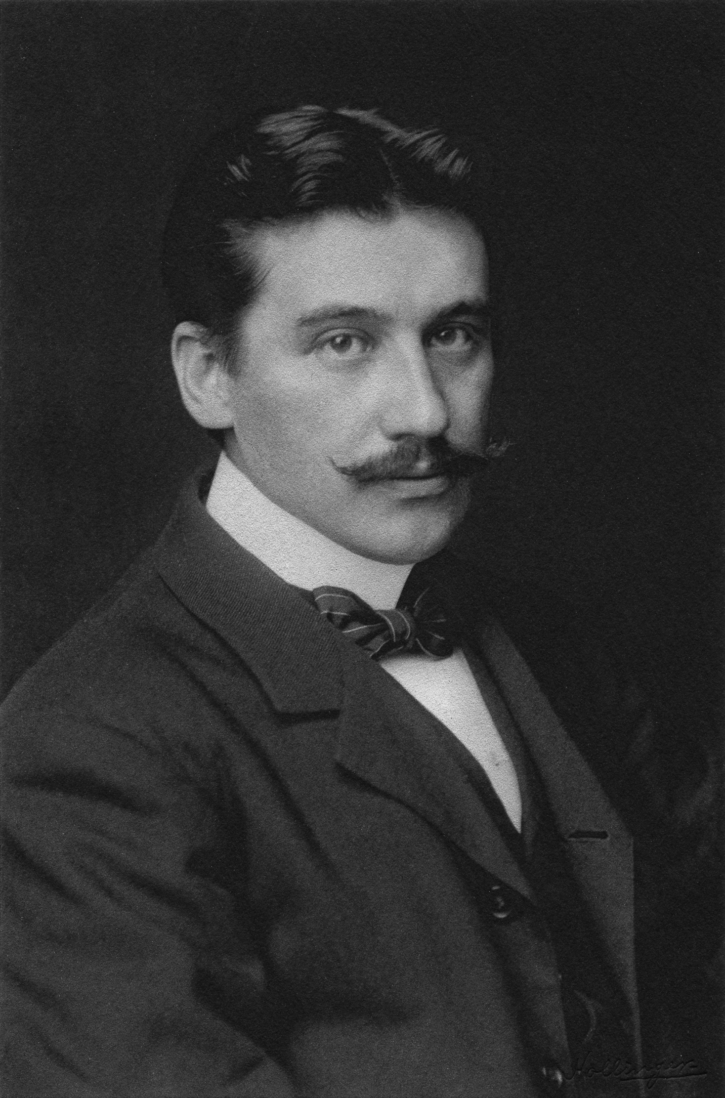 Description: Portrait of Keller. Identification on front (handwritten): Keller, A.I. Creator/Photographer: Unidentified photographer Medium: Black and white photographic print Dimensions: 14 cm x 10 cm Date: c. 1886 Collection: Charles Scribner's Sons Art Reference Department Records, c. 1865-1957 Persistent URL: Repository: Archives of American Art Accession number: aaa_charscrs_4279